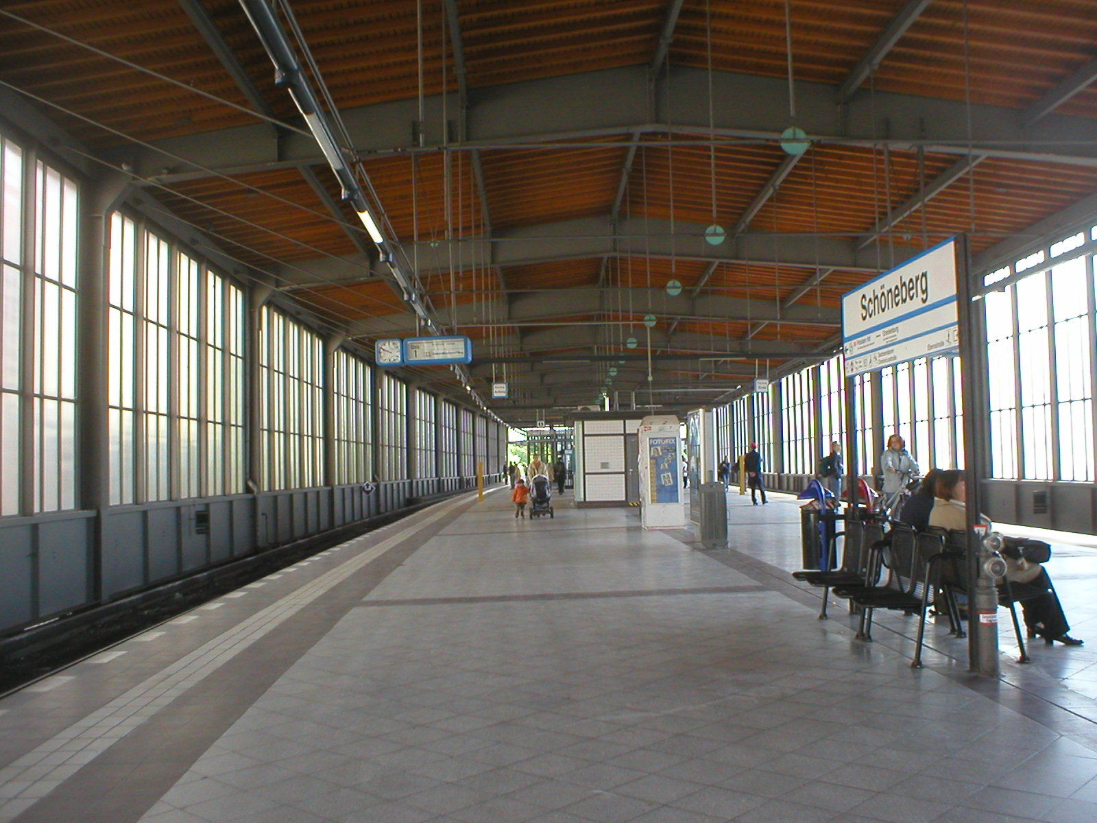 Platform of Berlin's suburban rail station Schöneberg